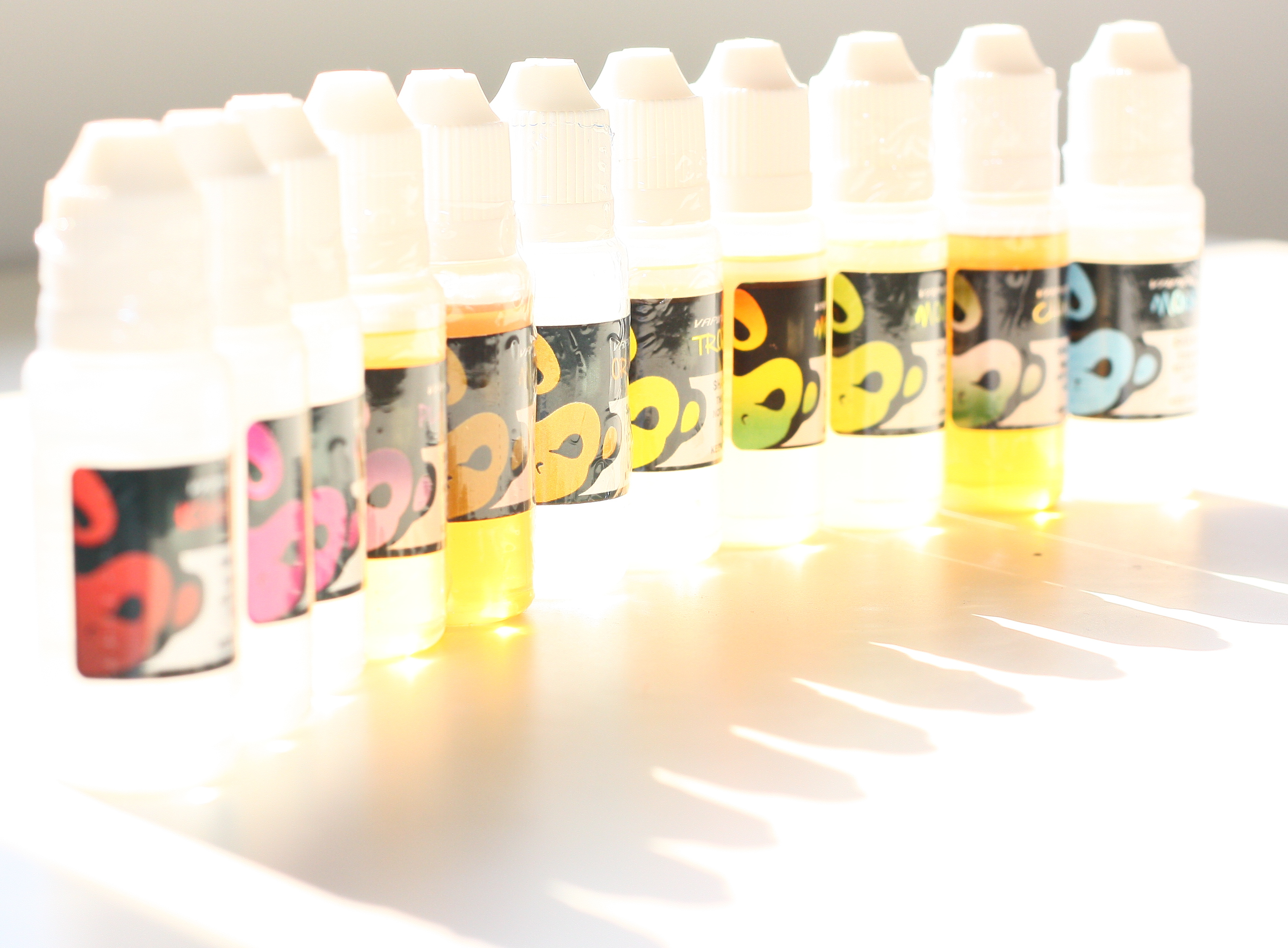 Electronic cigarette e-liquid flavor bottles made by Vaping Monkey. E-liquid (e-juice) is used in e-cigarettes for vaping.